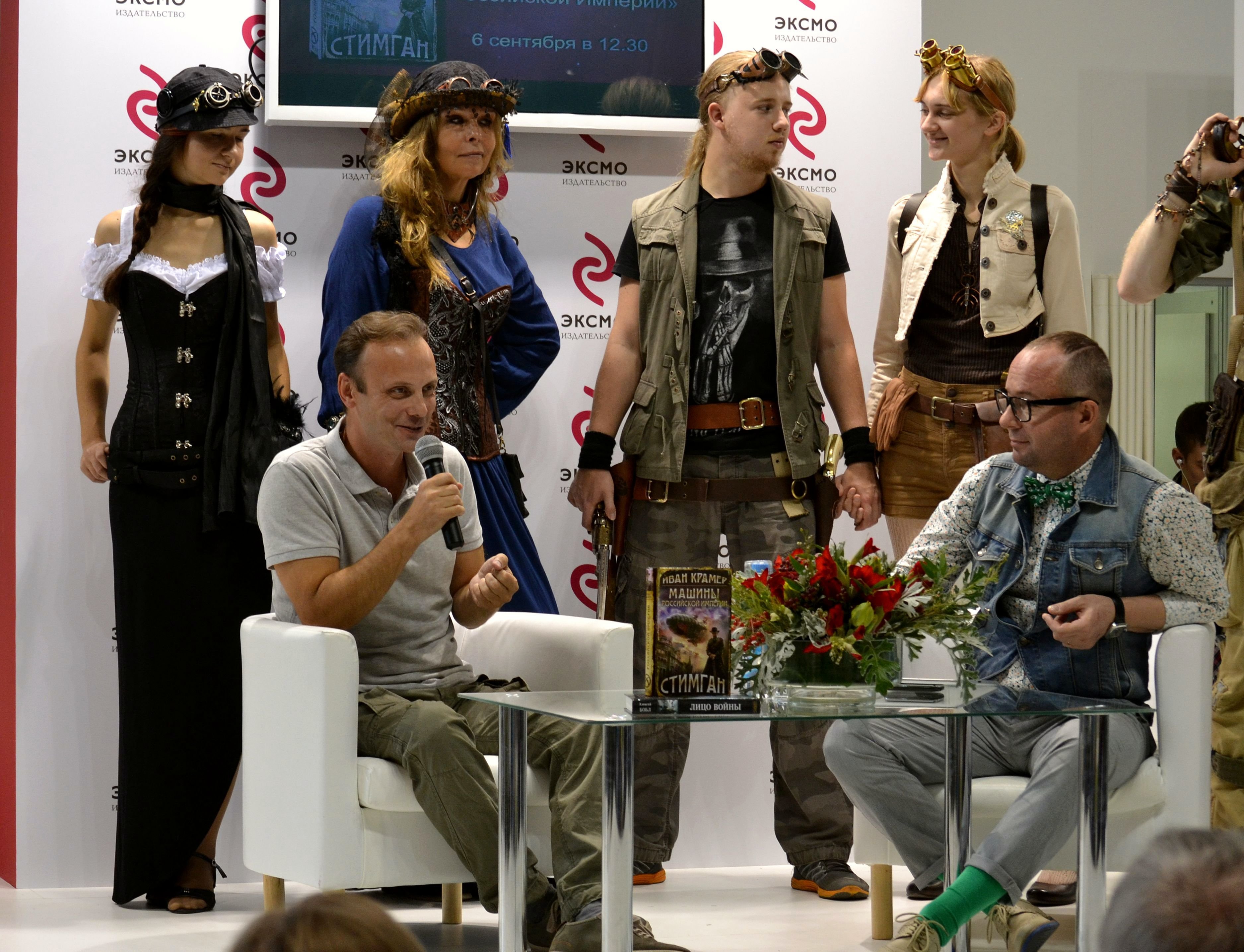 Alex Bobl, a Russian science-fiction writer (sits in an armchair on the left), presents his book Machines of the Russian Empire («Машины Российской Империи») at the 27th Moscow International Book Fair, 6 September 2014. The members of the Moscow Community of Steampunk take part in the presentation.